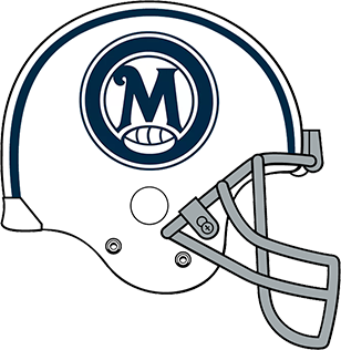 LFA Mayas de Ciudad de México helmet